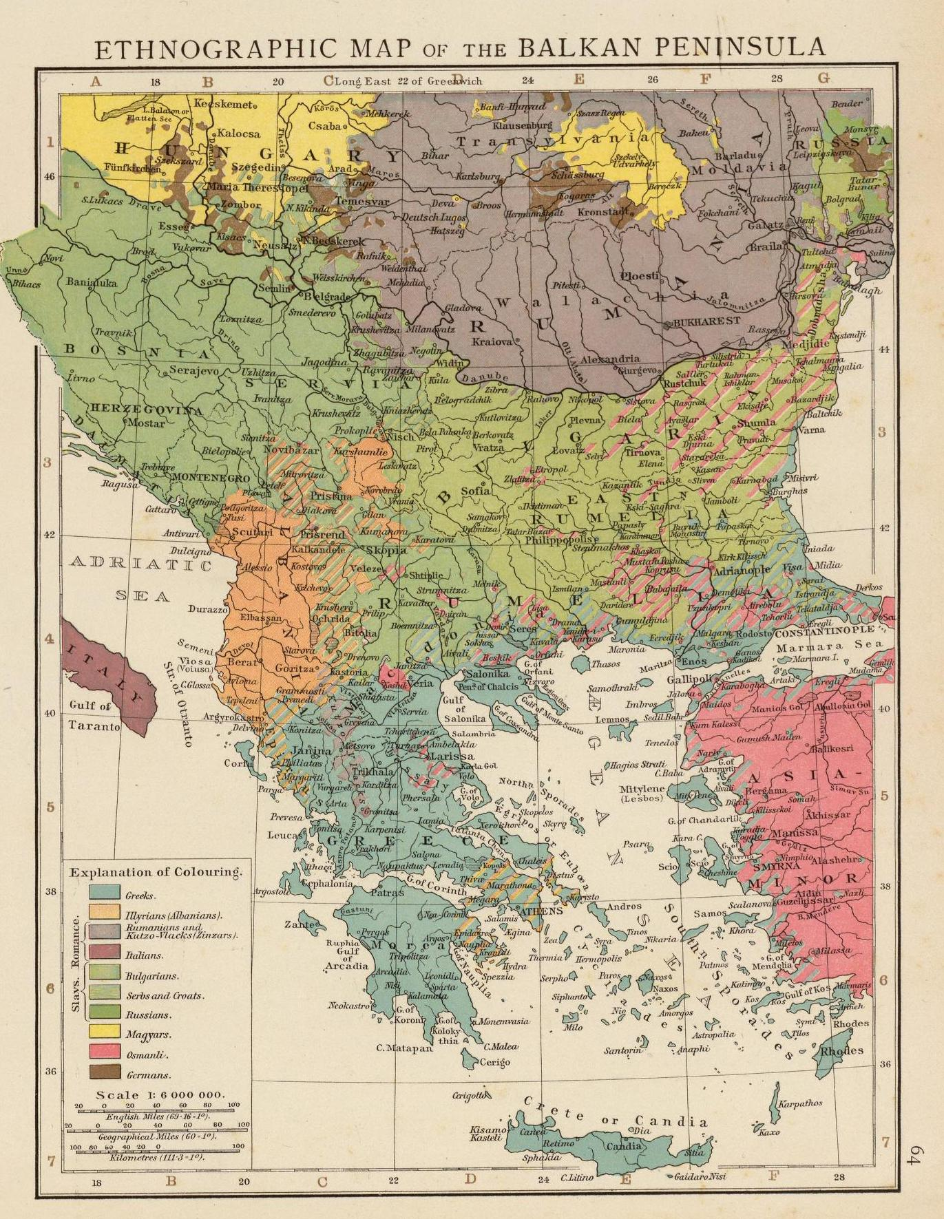 Ethographic map of Balkan peninsula, 1895 [1]